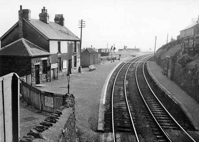 Bedwas Station. View westwards, towards Pengam, Merthyr and Brecon; ex-Brecon & Merthyr Railway Newport - Pengam - Merthyr - Brecon line. The station was closed to passengers on 31/12/62, to goods on 6/4/65. Note the 'somersault' signal.